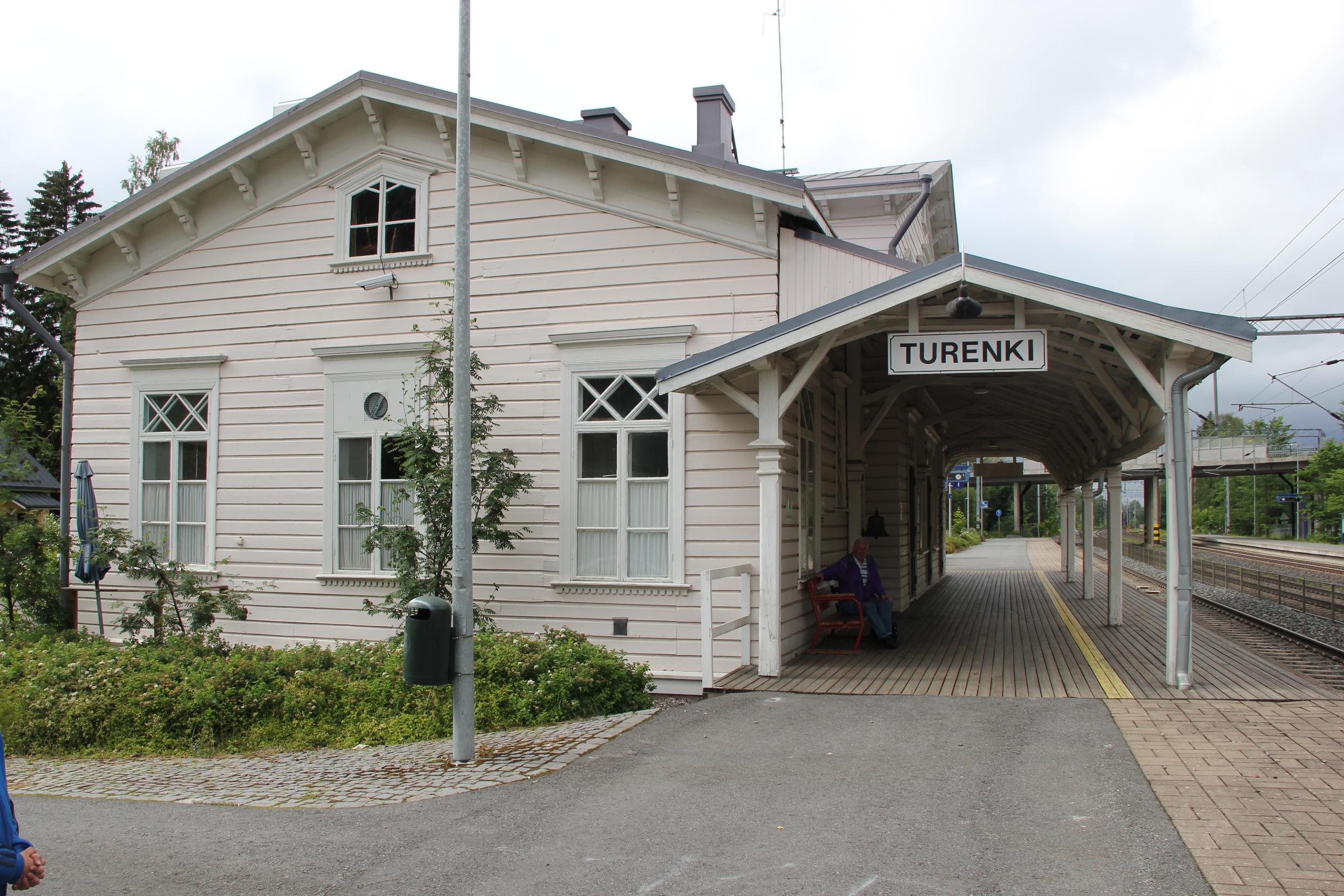 Railway station in Turenki, Janakkala, Finland. Architect: Carl Albert Edelfelt, 1862. Material: Wood. Nowadays: Restaurant. The man sitting on the bench is a retired prison guard.